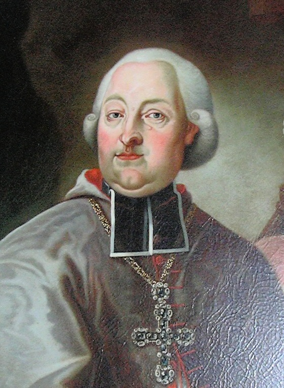 Painting of bishop of Olomouc Maxmilián z Hamiltonu